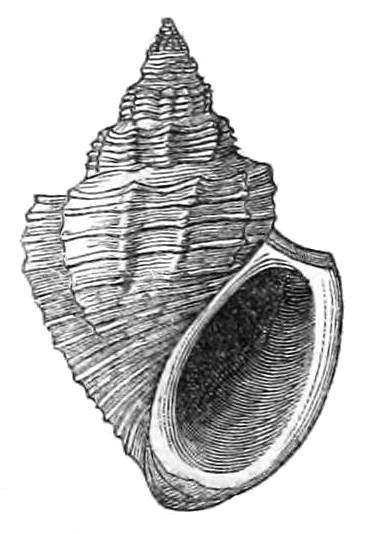 Drawing of apertural view of a shell of Paramelania damoni